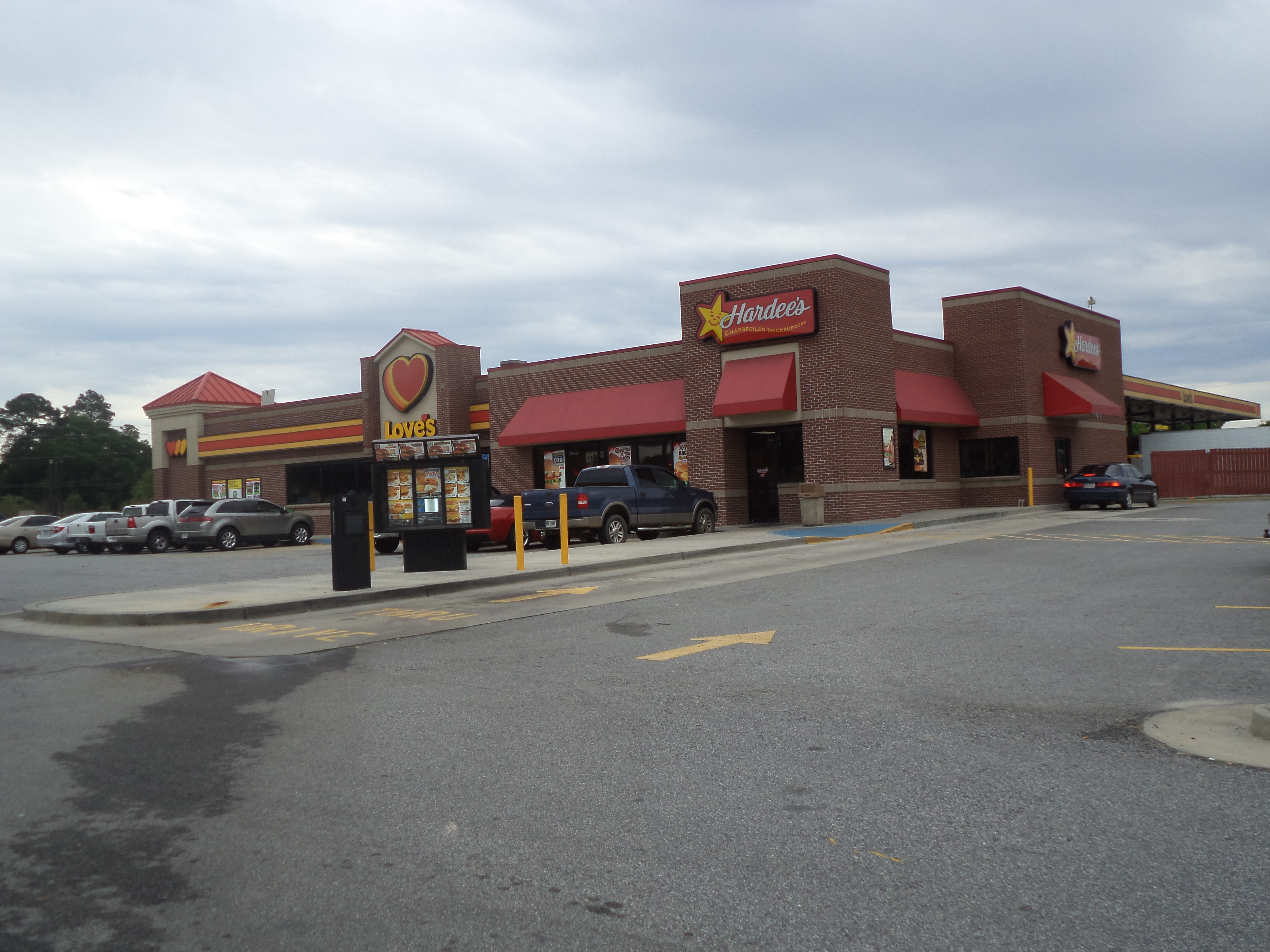 Love's Travel Stop and Hardees, 178 Southwell Blvd, Tifton, Tift County, Georgia. This has a Tifton address but is not physcially inside the city.